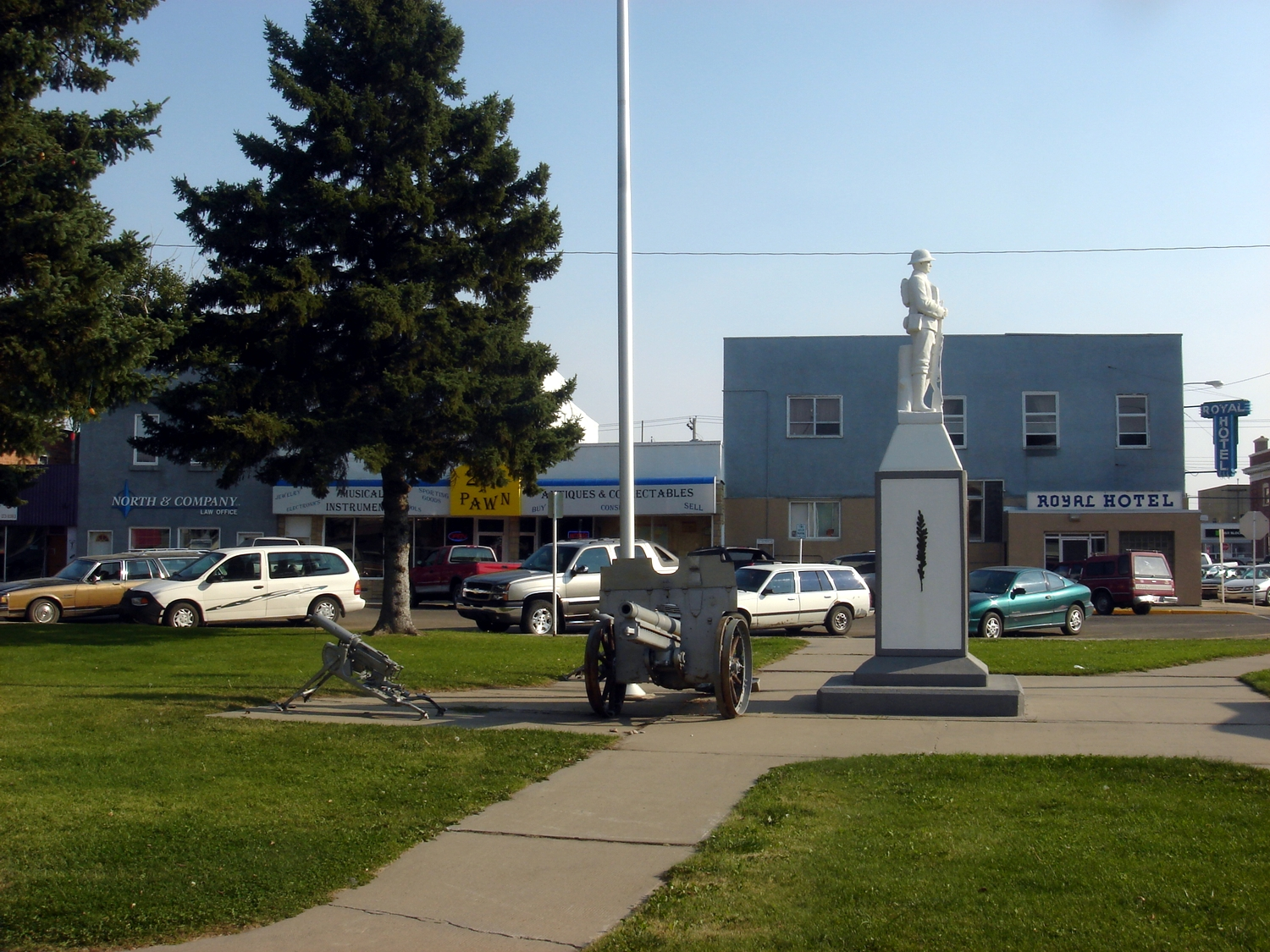 Town centre Taber, Alberta